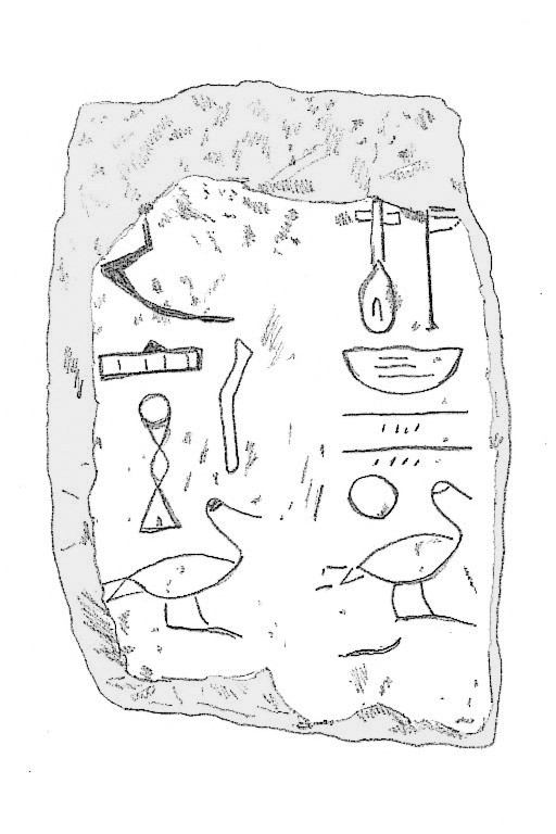 Drawing of an ancient Egyptian plaque fragment mentioning pharaoh Ameni Qemaw of the early 13th Dynasty, Middle Kingdom. Provenance unknown, now in a private collection. It has been suggested that this plaque may be a forgery. [Original picture in Goedicke, Hans. “A Puzzling Inscription”, JEA 45 (1959), pp. 98-99]